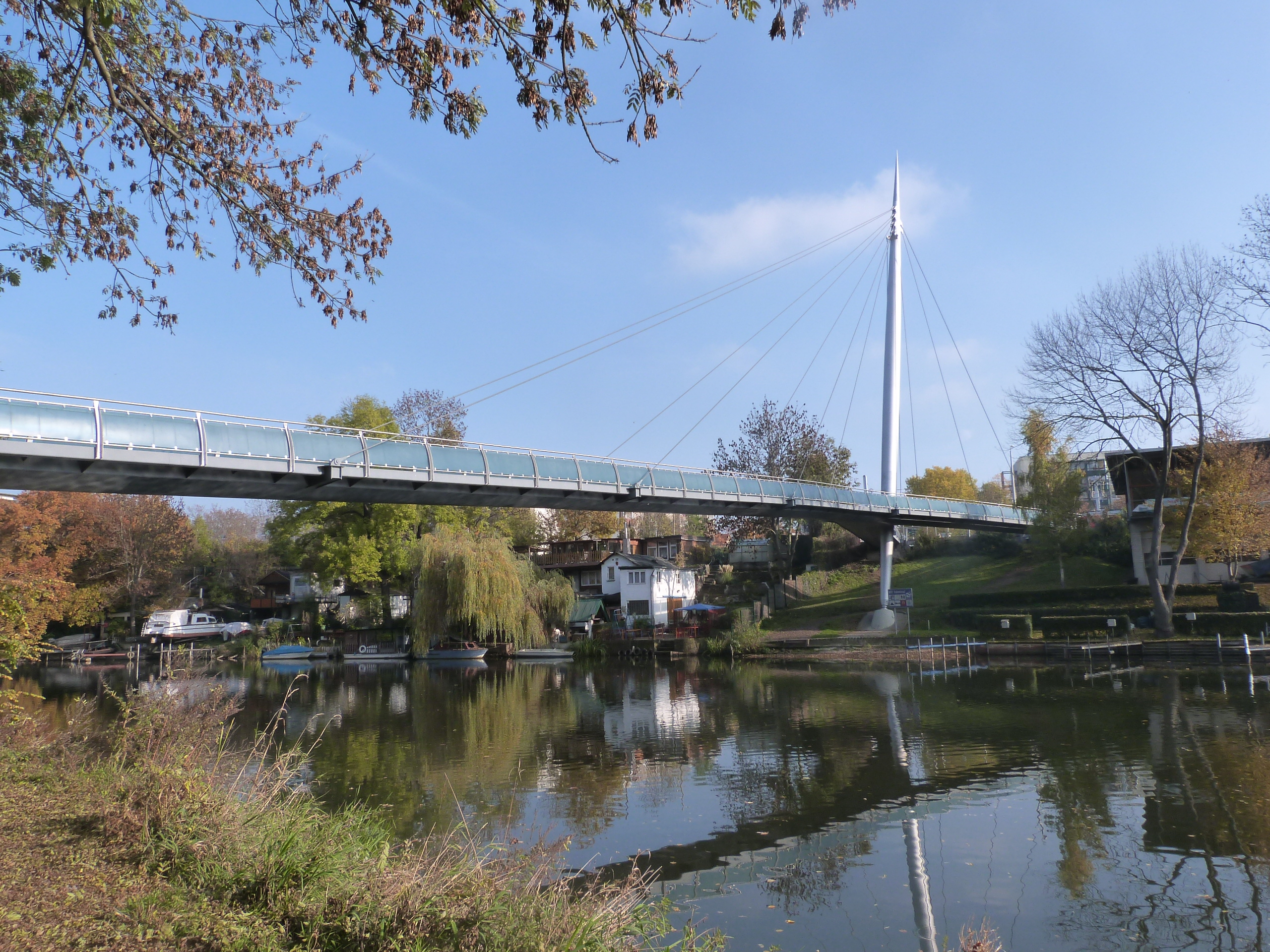 View to the Bridge Rabeninsel ("Island of Ravens") from the Rabeninsel in Halle (Saale)